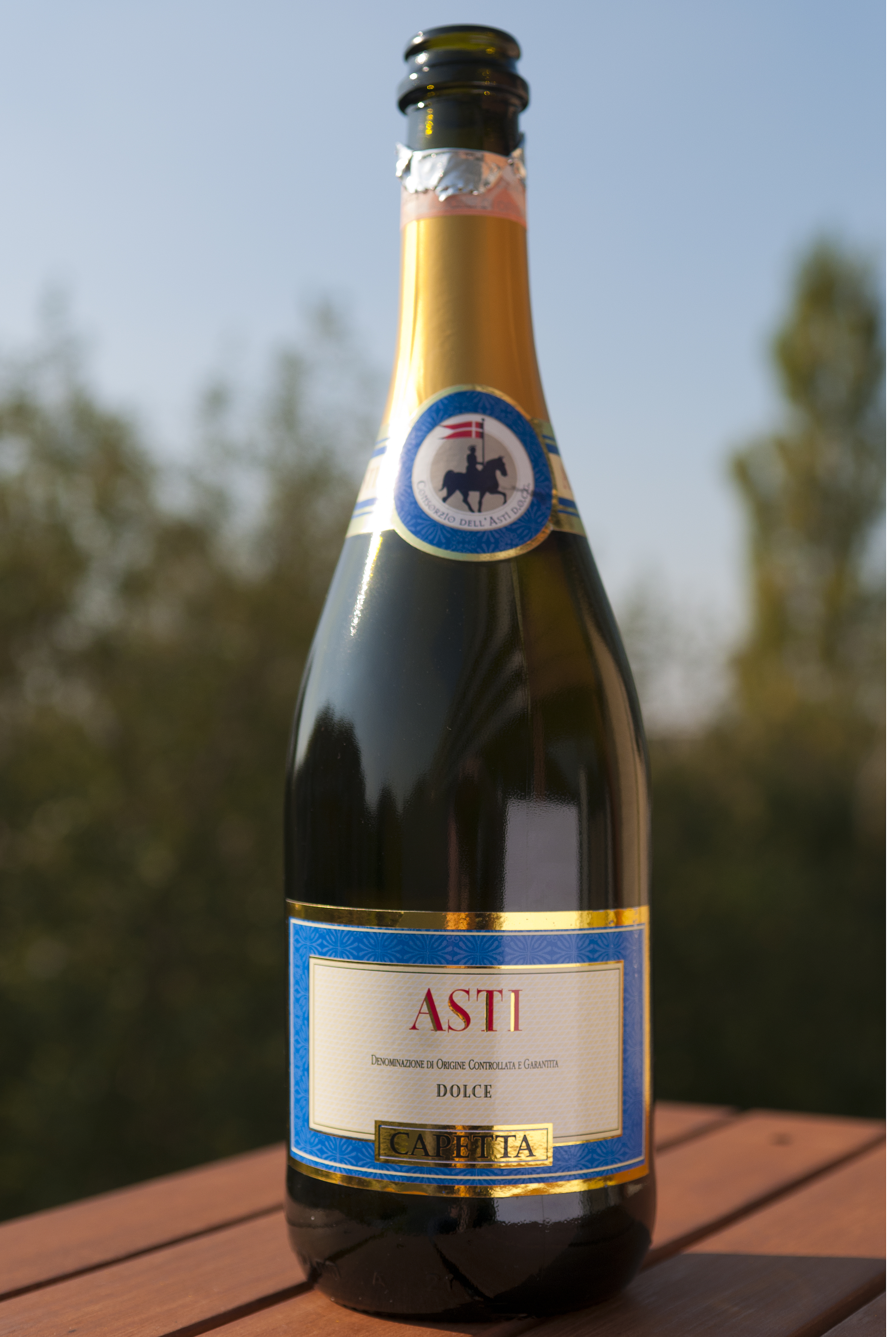 D.O.C.G. Dolce Asti from Capetta